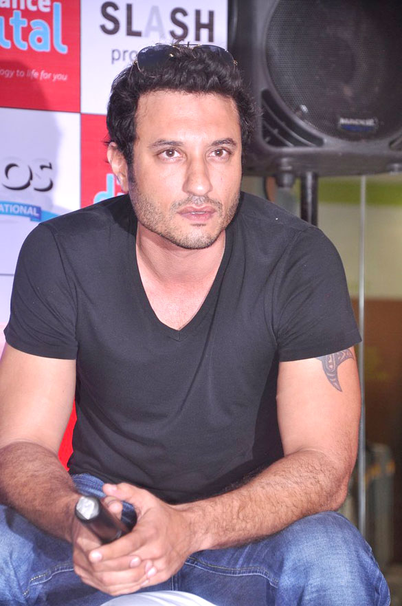 Homi Adajania promotes 'Cocktail'